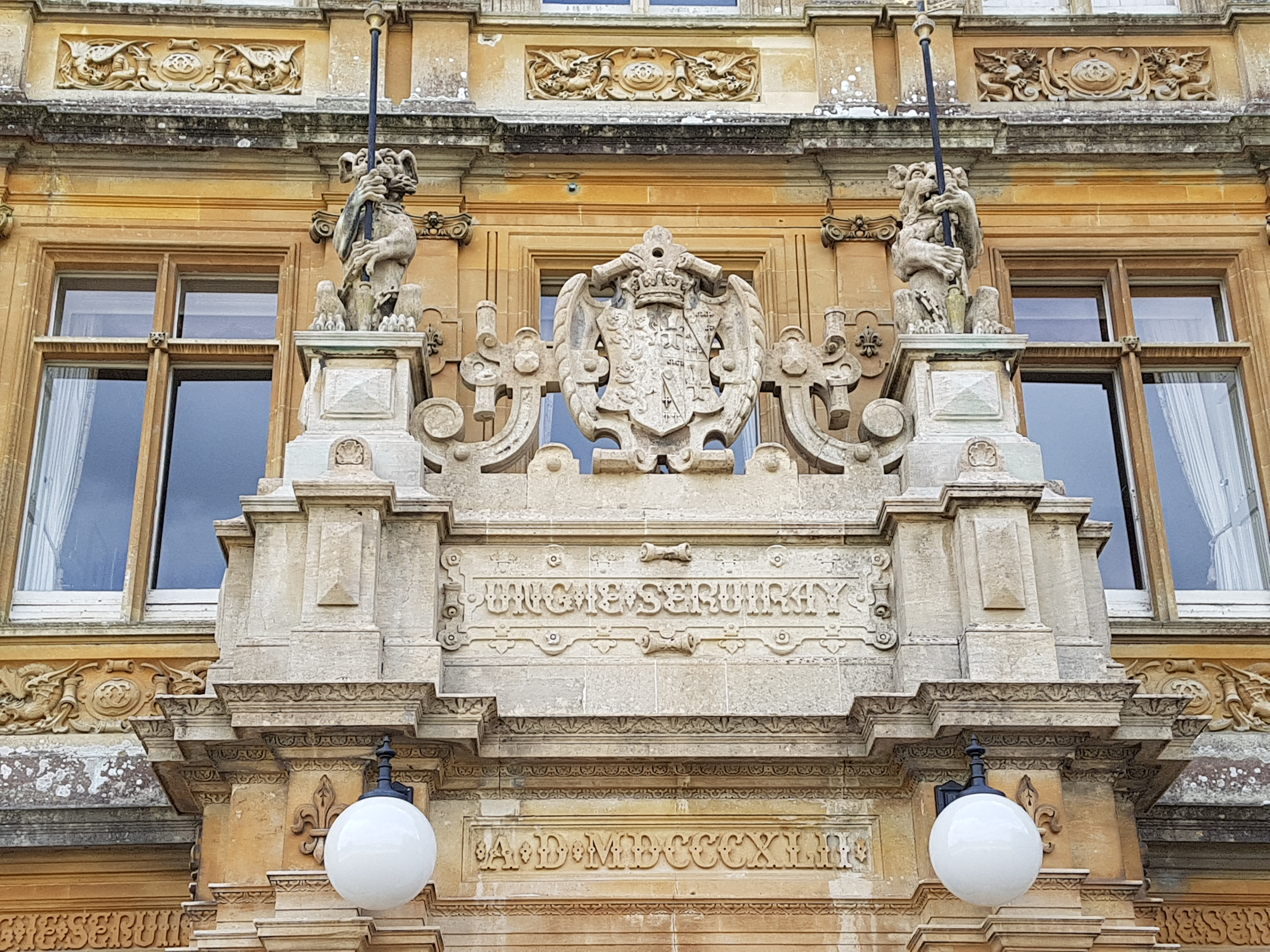 Highclere Castle, Main Entrance